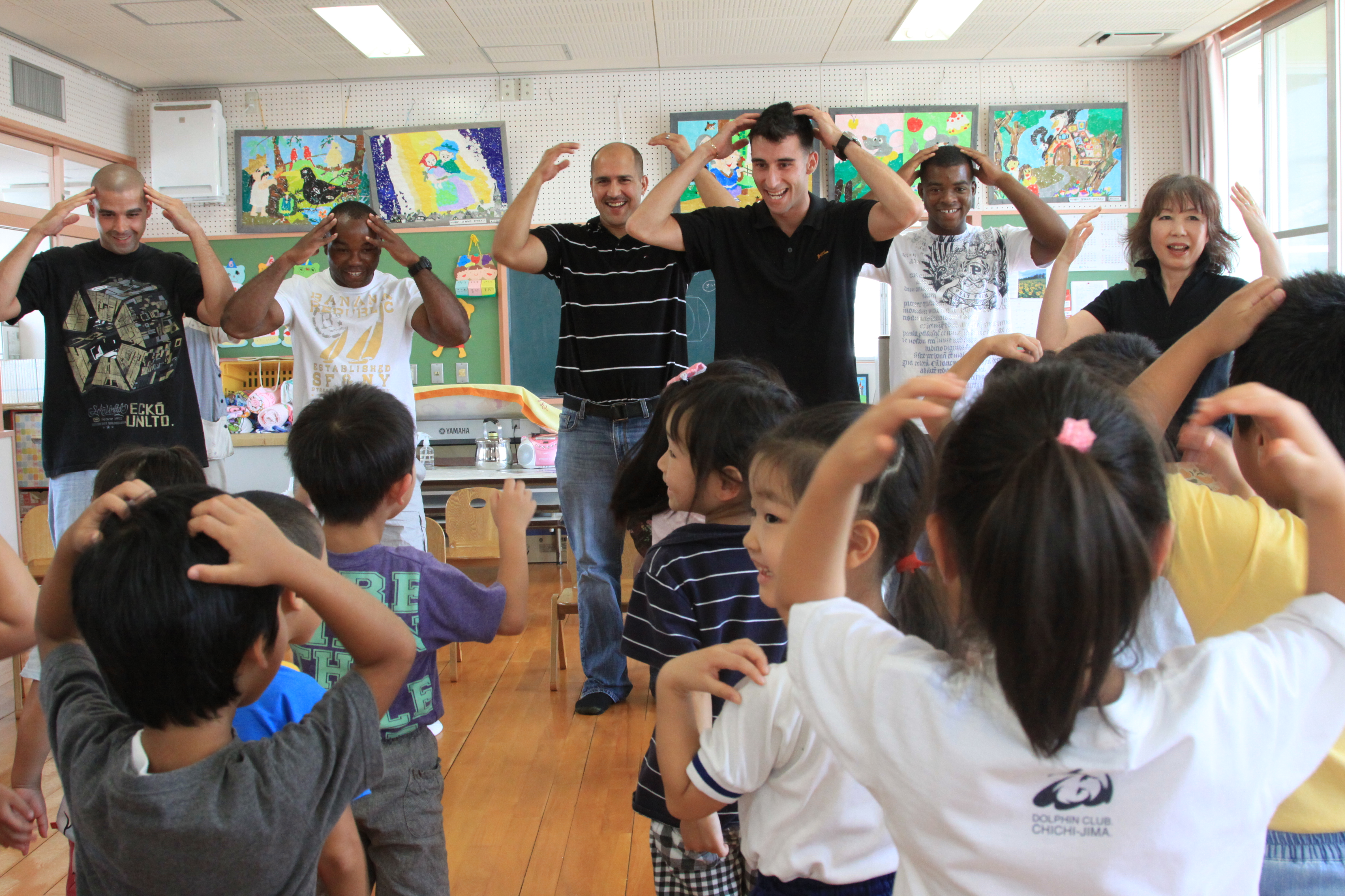 Cpl. Matthew Doyle (center-right), Marine Aviation Logistics Squadron 12 community relations coordinator, and station service members lead the children of Marifu Hoikuen, a Kindergarden School in downtown Iwakuni, in the “head, shoulders knees and toes” dance during a community relations visit to the school Aug. 31. During the trip, the Marines helped the students practice counting and identifying colors and animals in English. The Marines danced and played several learning games with the children.